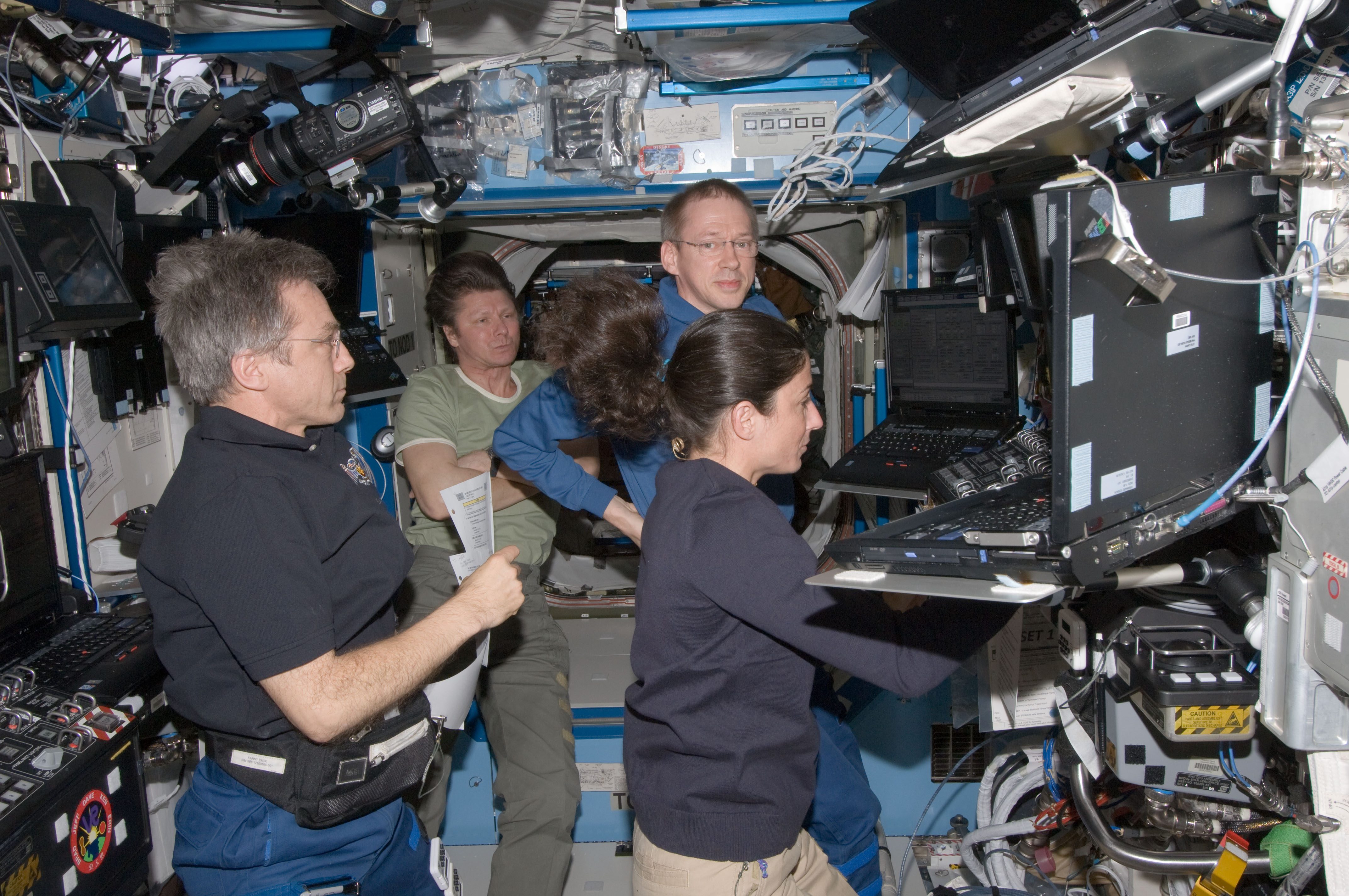 At the Canadarm2 work station in the Destiny laboratory, NASA astronaut Nicole Stott, European Space Agency astronaut Frank De Winne (right background) and Canadian Space Agency astronaut Robert Thirsk (left foreground), all Expedition 20 flight engineers; along with Russian cosmonaut Gennady Padalka, commander, monitor the unpiloted Japanese H-II Transfer Vehicle (HTV) as it approaches the International Space Station. Once the HTV was in range, Stott, De Winne and Thirsk used the station's robotic arm to grab the cargo craft and attach it to the Earth-facing port of the Harmony node. The attachment was completed at 5:26 (CDT) on Sept. 17, 2009.